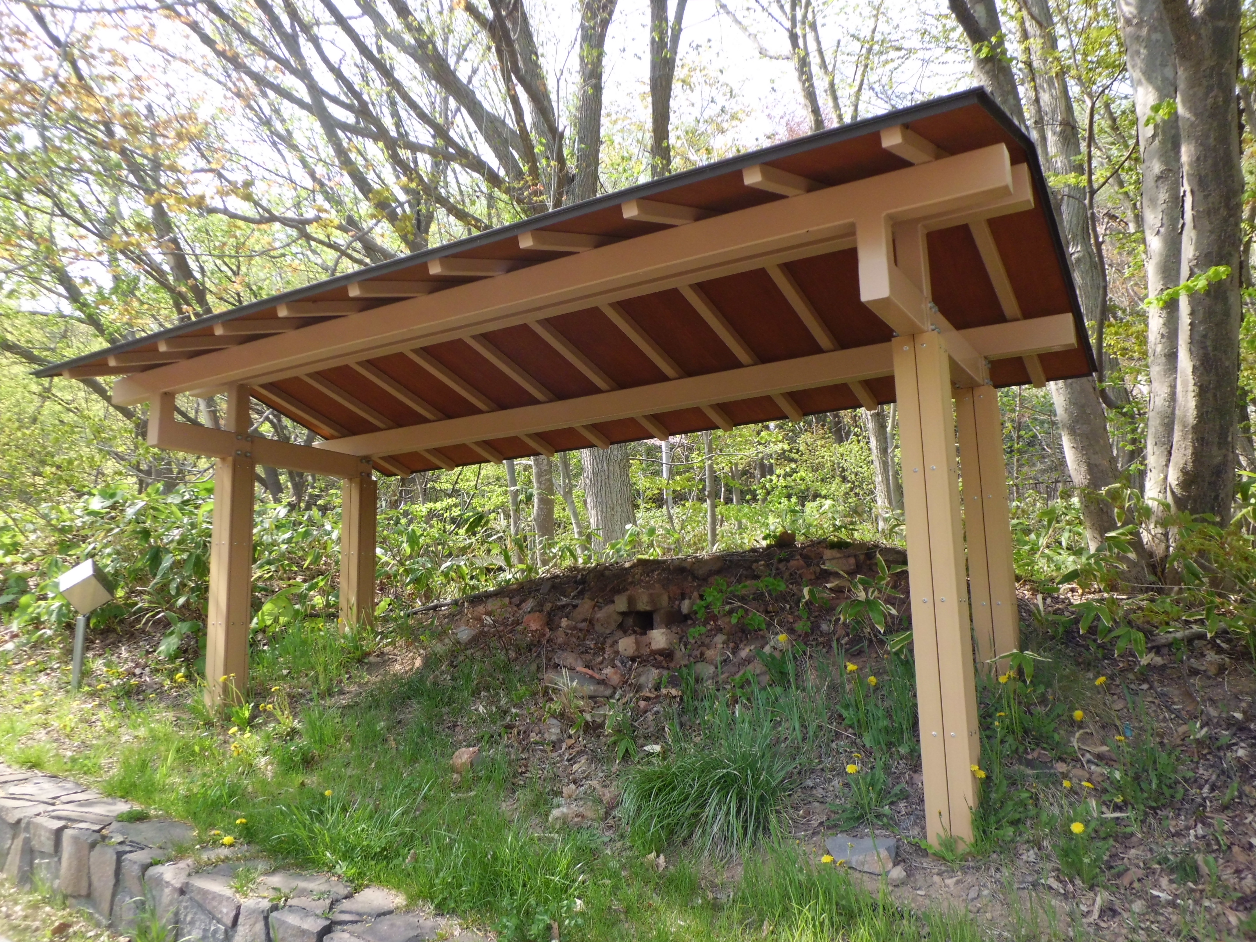 Sapporo Ware Kiln Remains in Sakaigawa, Chuo-ku, Sapporo.